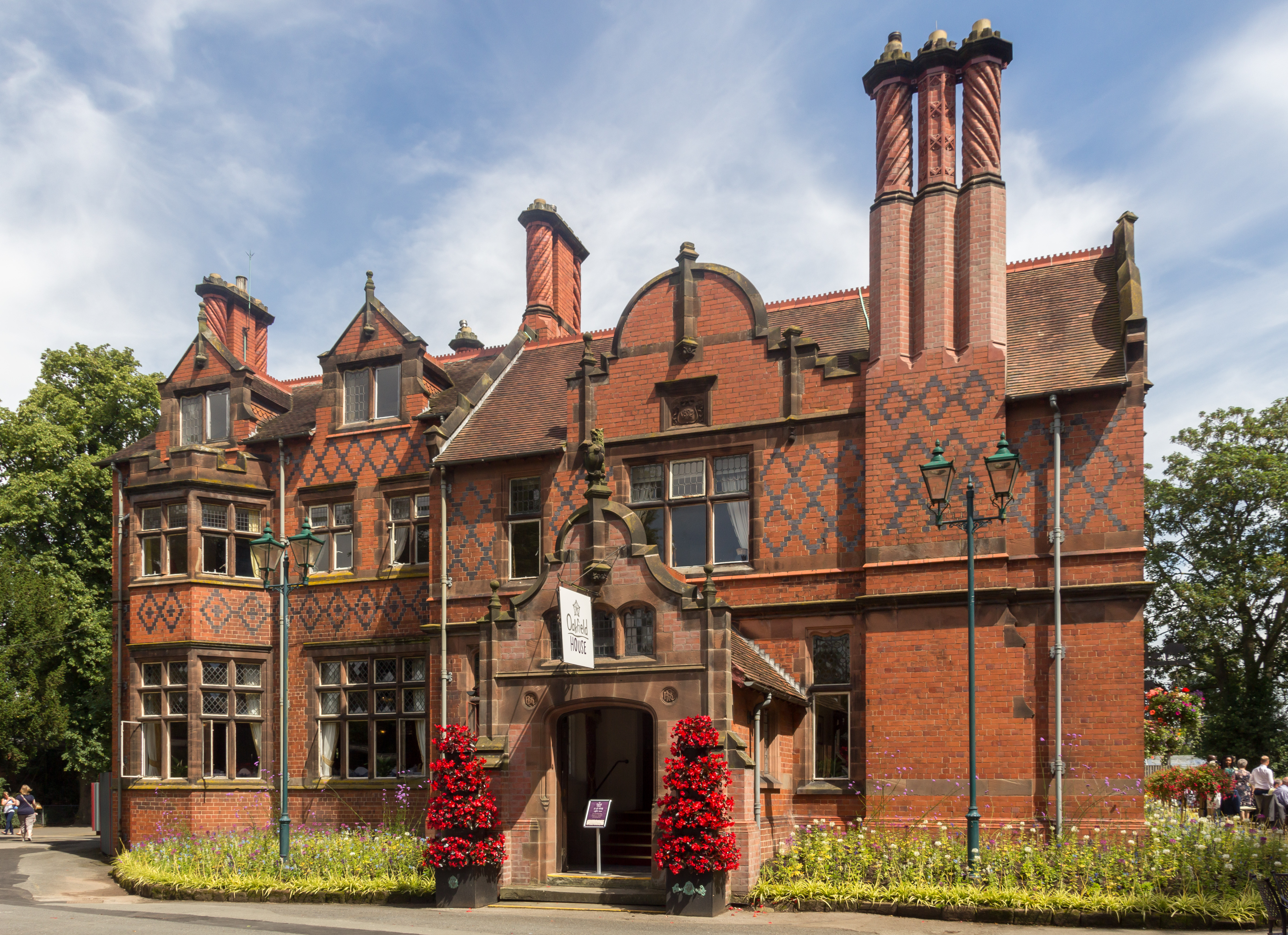 Oakfield Manor, Chester Zoo, United Kingdom.